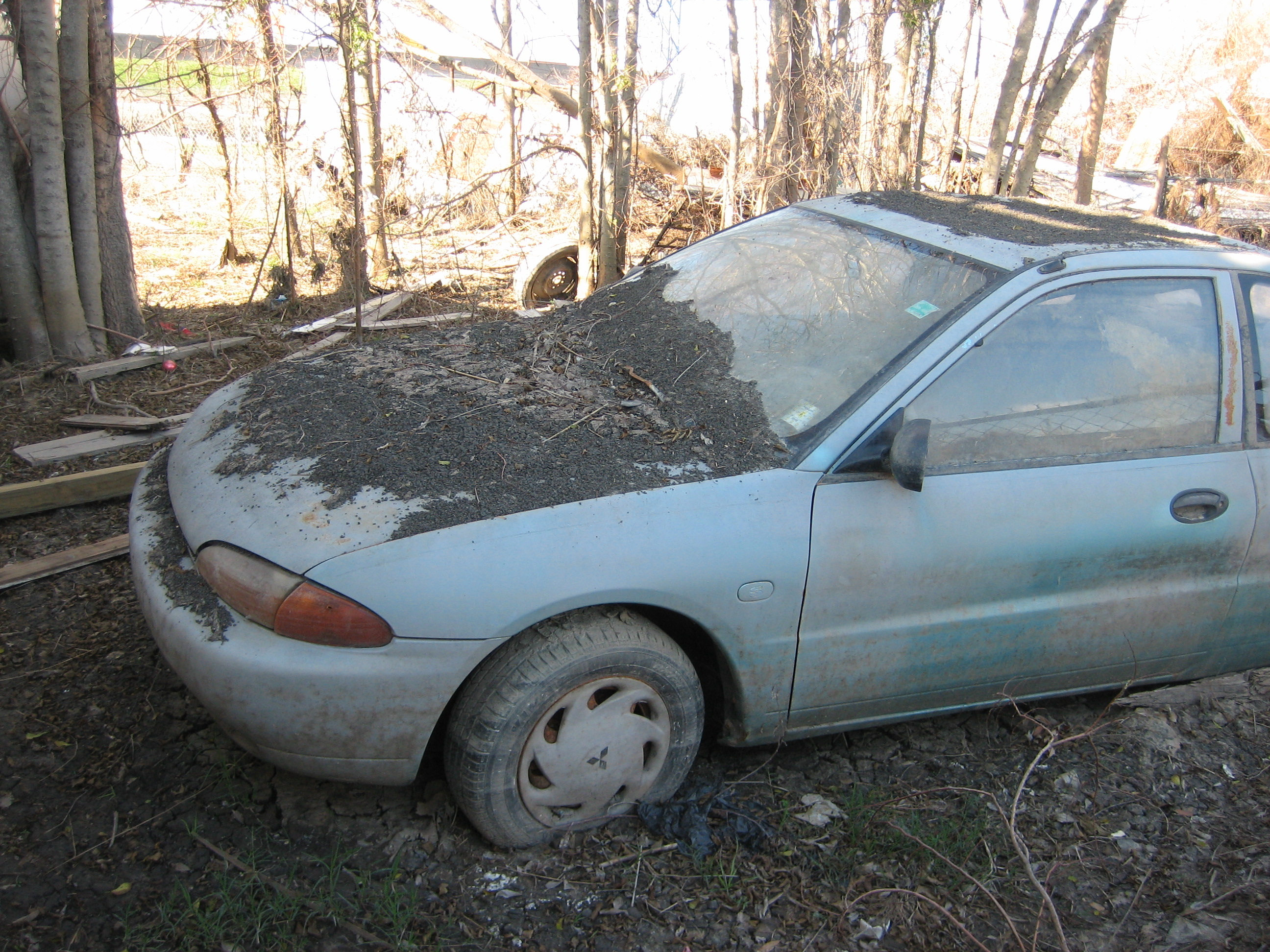 New Orleans: car in flood devastated Lower 9th Ward residential neighborhood covered with flood silt.